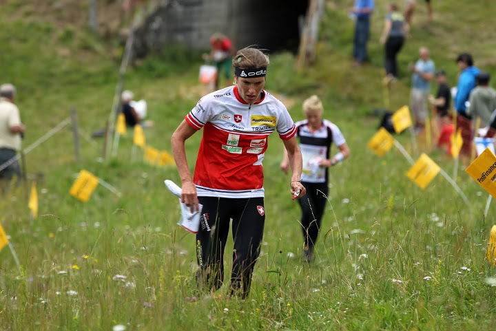 Simone Niggli-Luder at WOC 2012